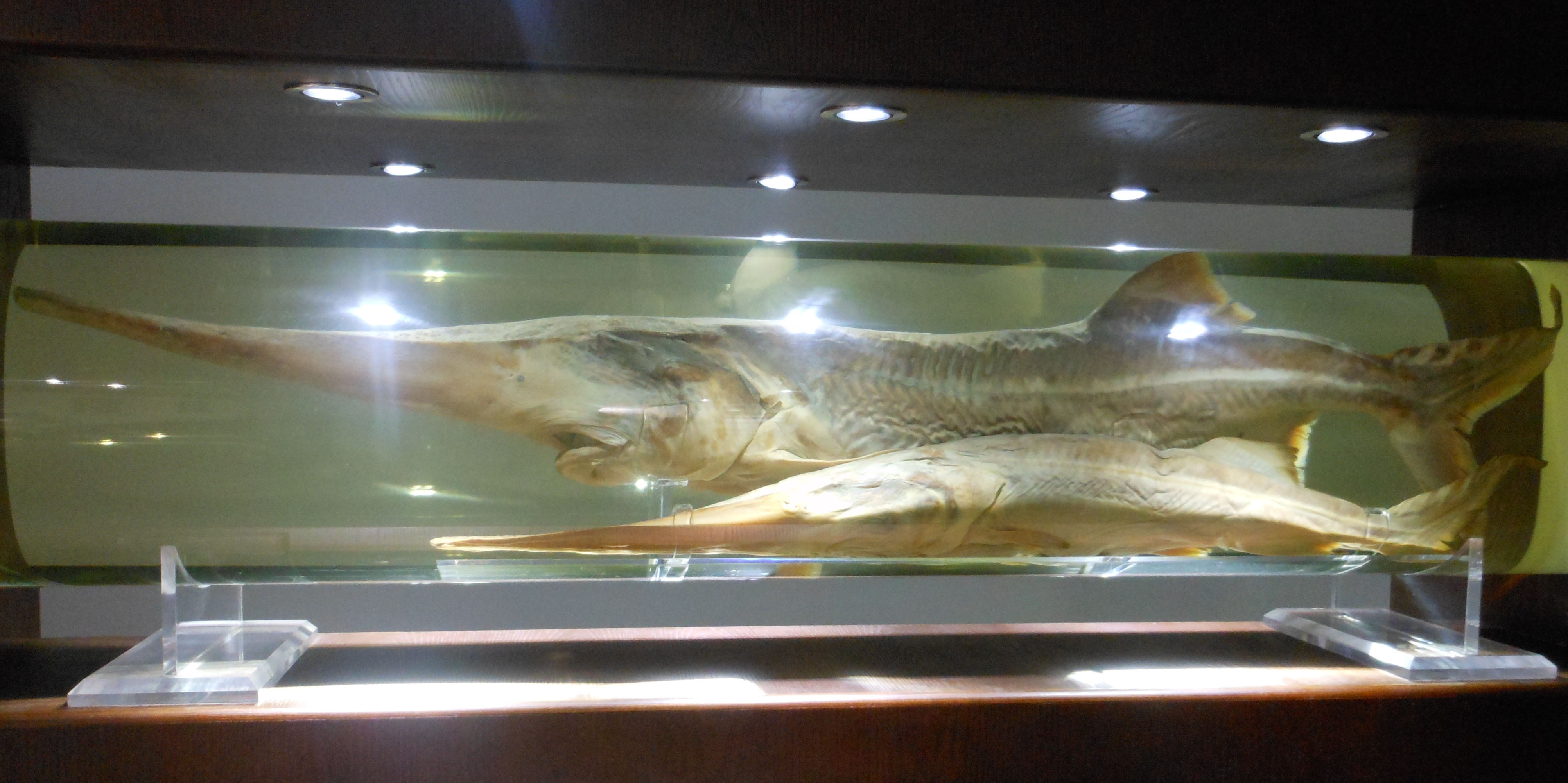 An additional image of a specimen of a mature Psephurus gladius (Chinese Paddlefish) that I've taken inside the Museum of Hydrobiological Sciences, Wuhan Institute of Hydrobiology of Chinese Academy of Sciences when I was searching files on my computer. Detailed information of the specimen is little-known as well. And I cropped the original image because approximately one-third of it occupies a container which contains a specimen of a mature Baiji Dolphin. Compared with the other three images I've taken inside the museum, features of Chinese Paddlefish are clearly shown in this image. The other specimen in the container is highly probably a Chinese Paddlefish, though I can't 100% confirm it.